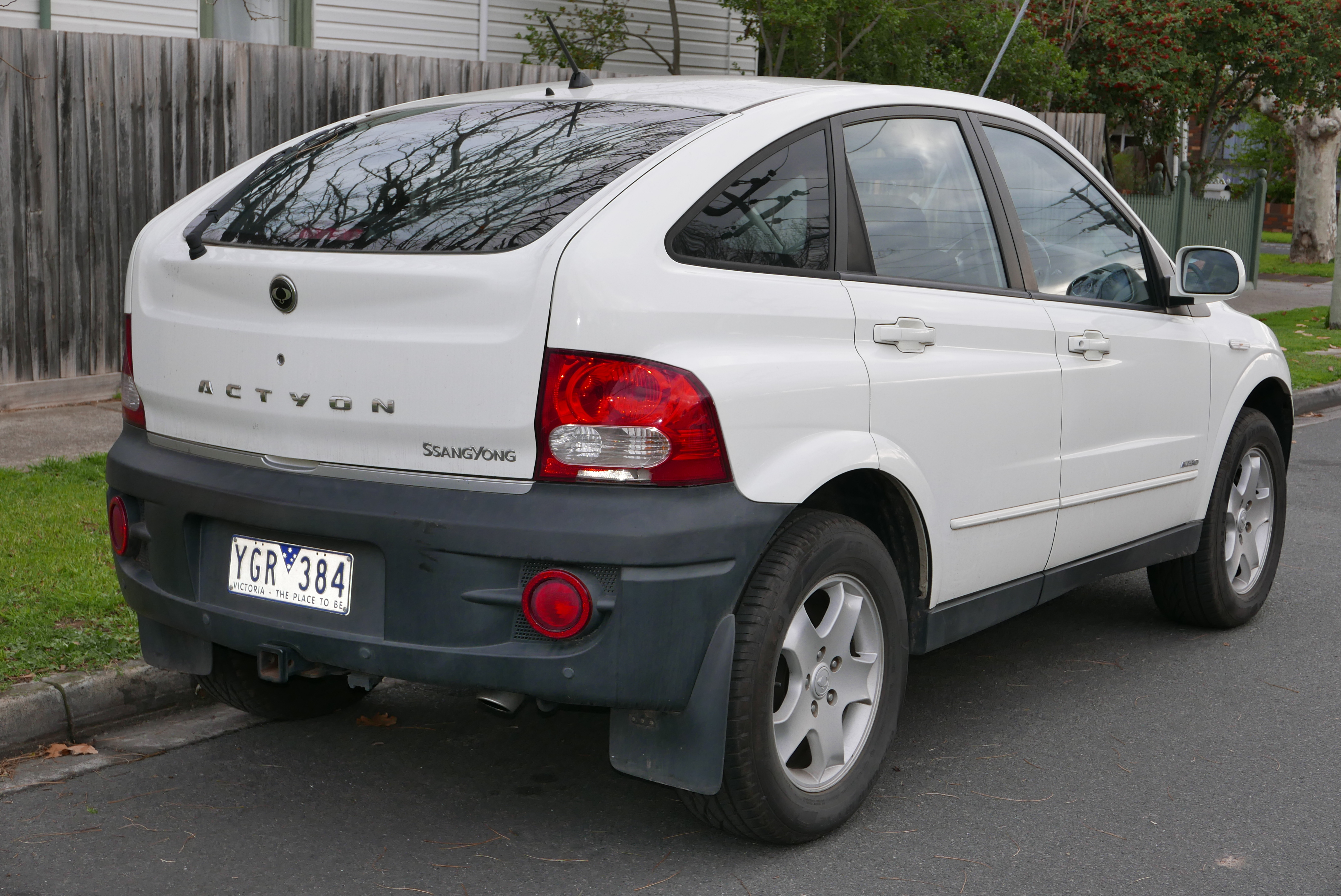 2007 SsangYong Actyon (C100) A230 wagon. Photographed in Fairfield, Victoria, Australia. Vehicle registration enquiry resultsJurisdictionVictoriaRegistrationYGR384Chassis codeKPTD0B16S7P031942Engine code16195122000918Compliance date2007-03Year of manufacture2007